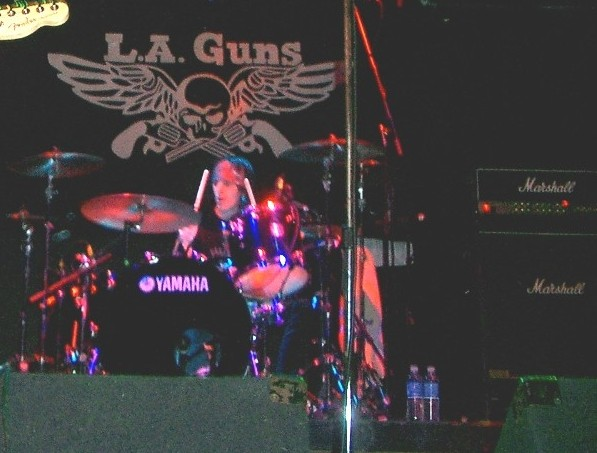 Steve Riley at the Chance Theater. Poughkeepsie, NY. March 2008.